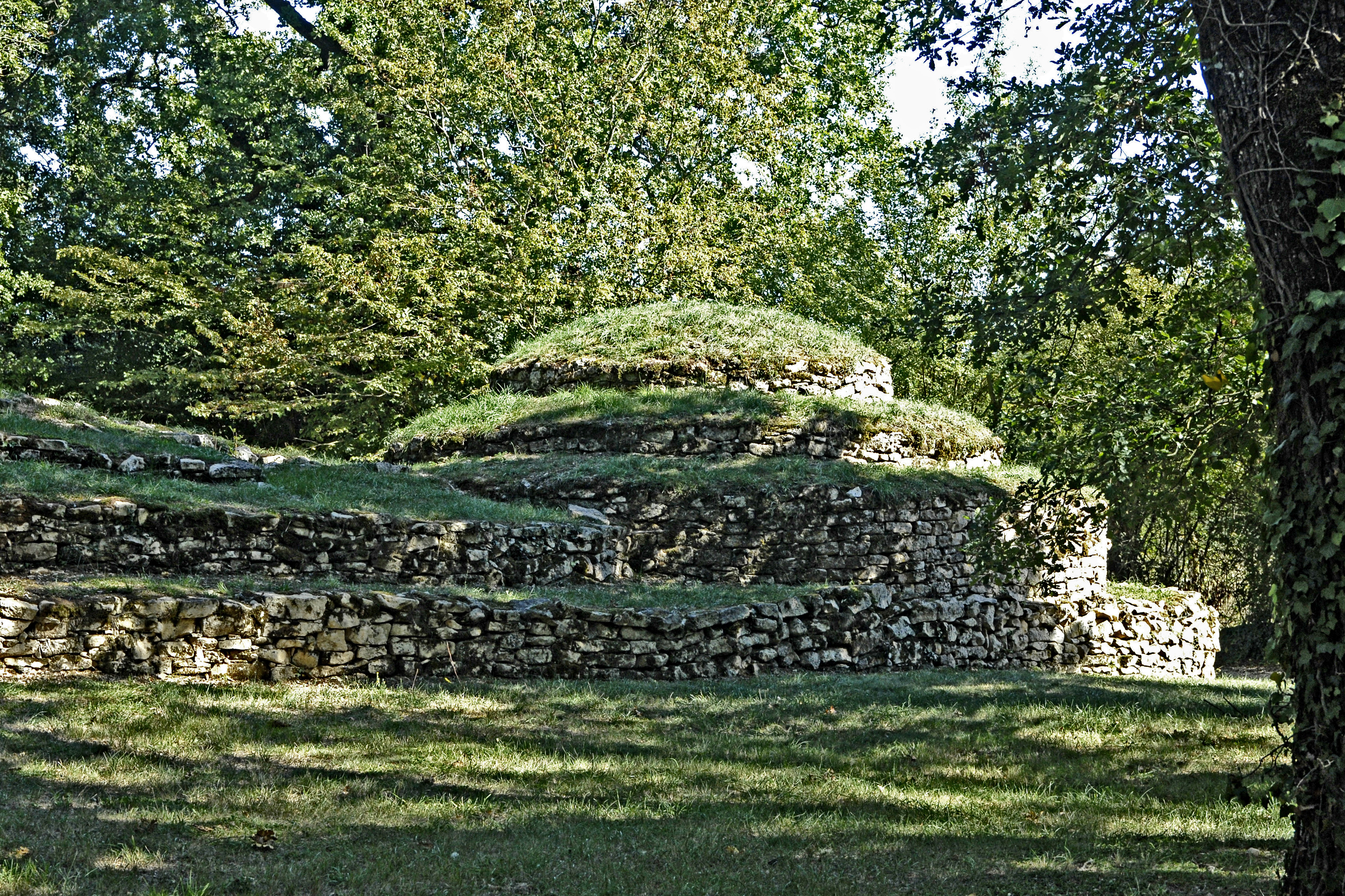 A complex of tombs with varying dates near Poitiers, the oldest being F0